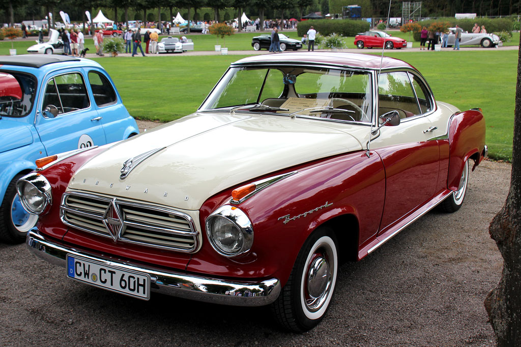 1959 Borgward Isabella Coupé